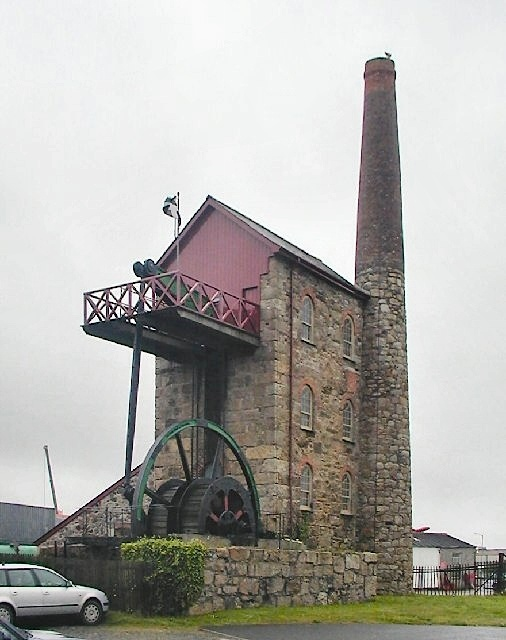 Winding Engine House on Michell's Shaft at East Pool mine, near Redruth, Cornwall, England